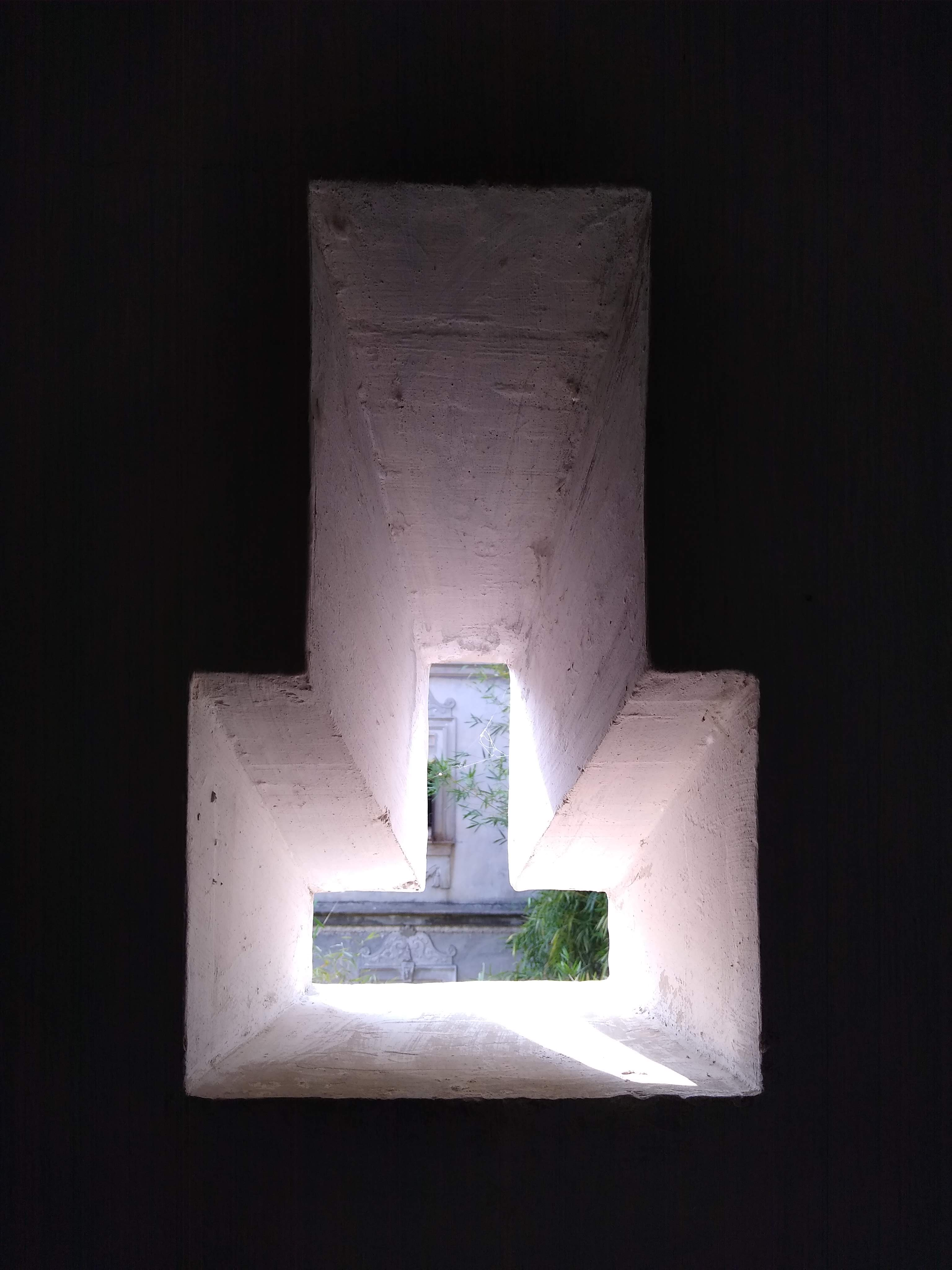 Embrasure in Jinjiang Lou (锦江楼), a diaolou in Jinjiangli (锦江里), Kaiping.